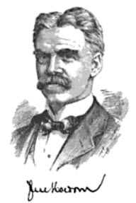 Jessie Holdom (1851-1930)